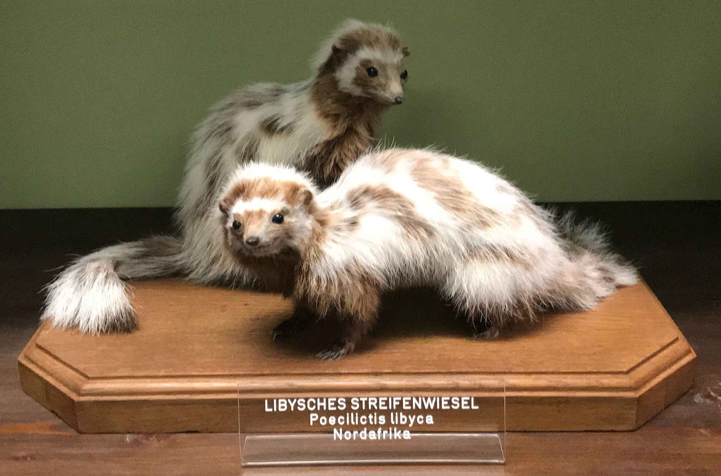 Saharan striped polecat Ictonyx libyca (Poecilictis) preparation of the Museum of Natural History in Vienna